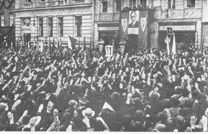 1. May 1938 in Liberec - demonstration Sudetendeutsche Partei